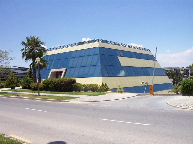 Building in the Andalusian Technology Park